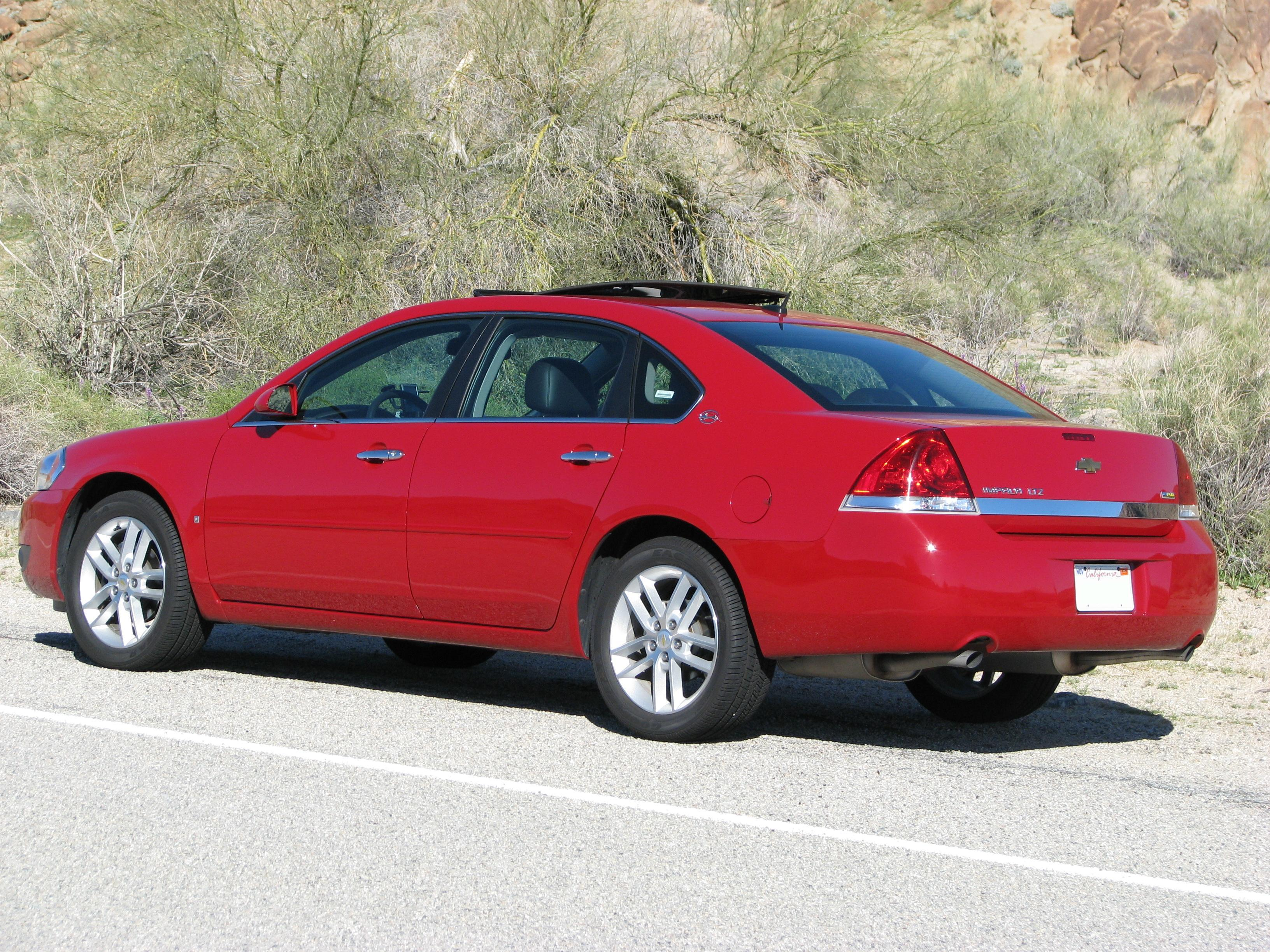 A 2007 (8th generation) red Chevrolet Impala LTZ.